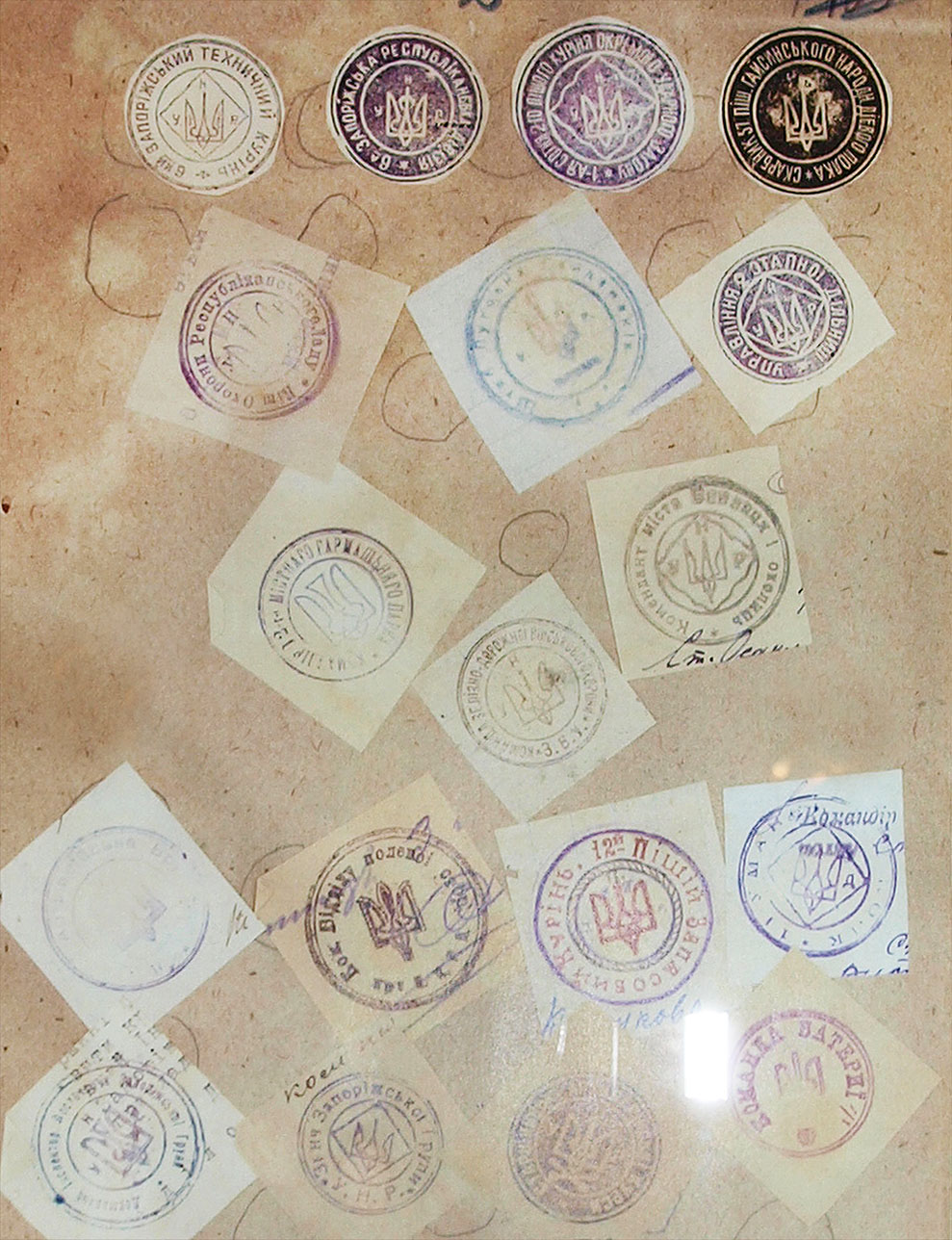 Ukrainian State Seal 1918-1920